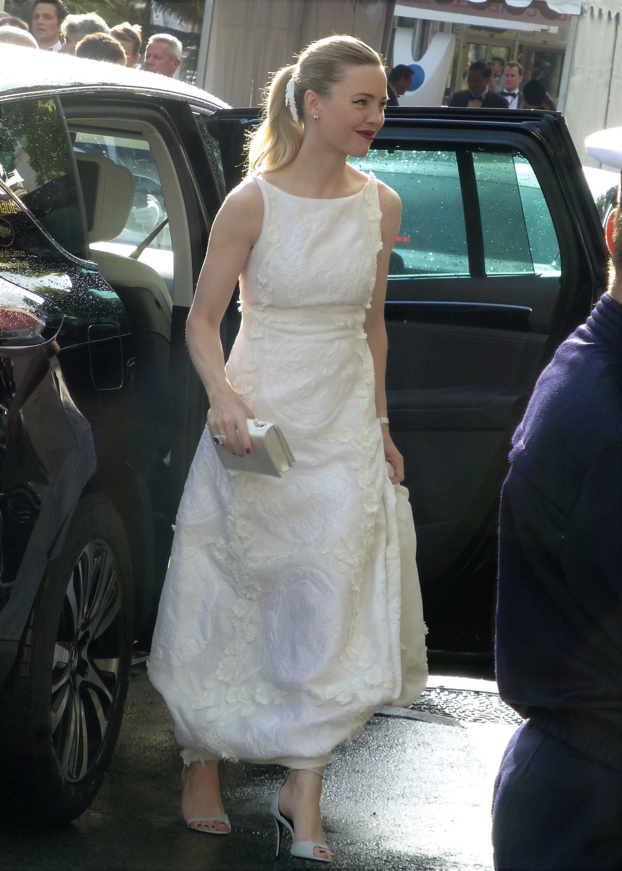 Melissa George at the world premiere of Cafe Society, 2016 Cannes Film Festival